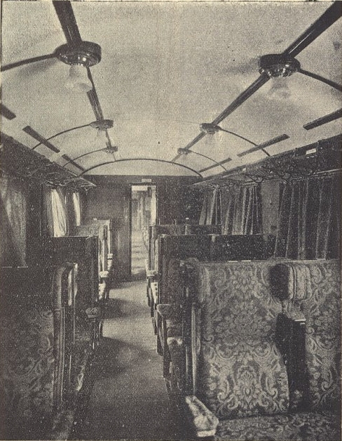 Mixed carriage of first and third classes, of the Companhia dos Caminhos de Ferro do Norte de Portugal (Portuguese Northern Railways Company). It was part of a lot that was built by the Officine Ferroviarie Meridionali, of Naples, and delivered on September 1931. This photograph was published on the Gazeta dos Caminhos de Ferro magazine no. 1062, of the 16th March 1932, and scanned by the Hemeroteca Municipal de Lisboa.